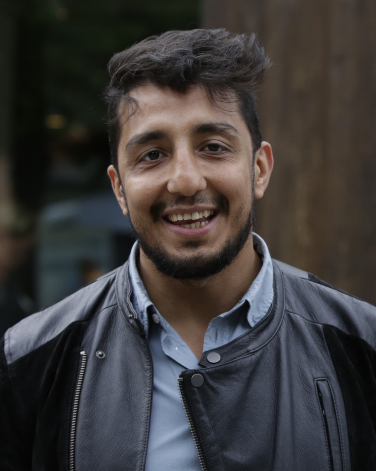 The swedish journalist Ehsan Fadakar